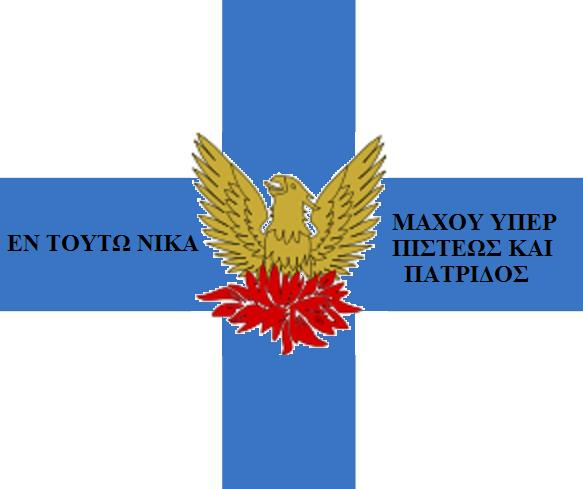 Flag of Naoussa Revolution, 1822